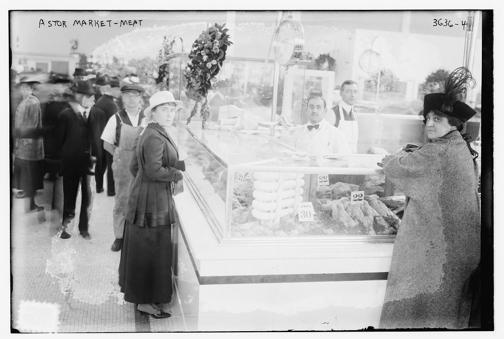 Astor Market meat counter in Manhattan in 1915